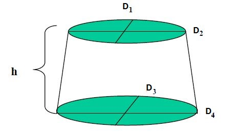 Illustration of the dimensions of a frustum of a cone